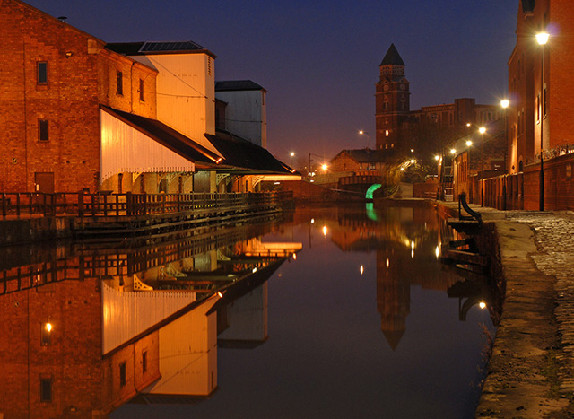 Wigan Pier and the Leeds & Liverpool Canal, in Wigan, Greater Manchester, England.